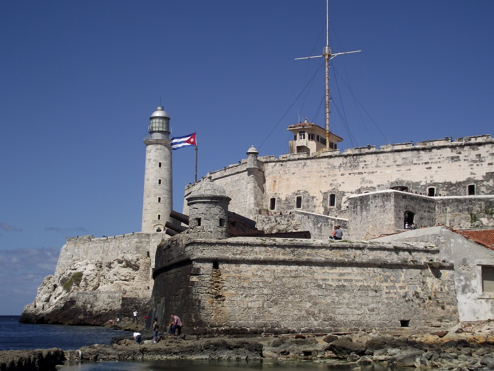 Morro castle, La Habana, Cuba